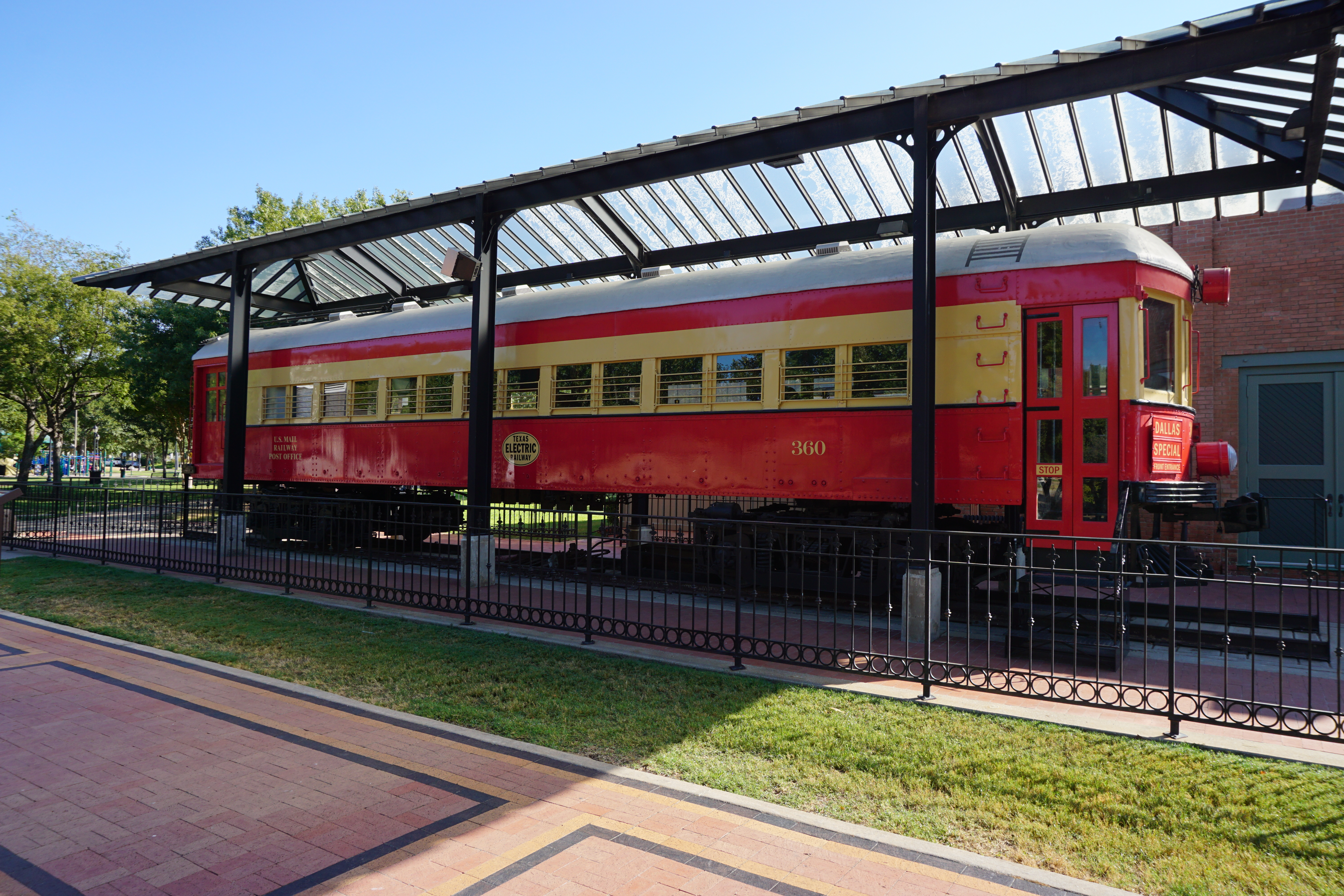 Texas Electric Railway Car 360 at the Interurban Railway Museum in Plano, Texas (United States).